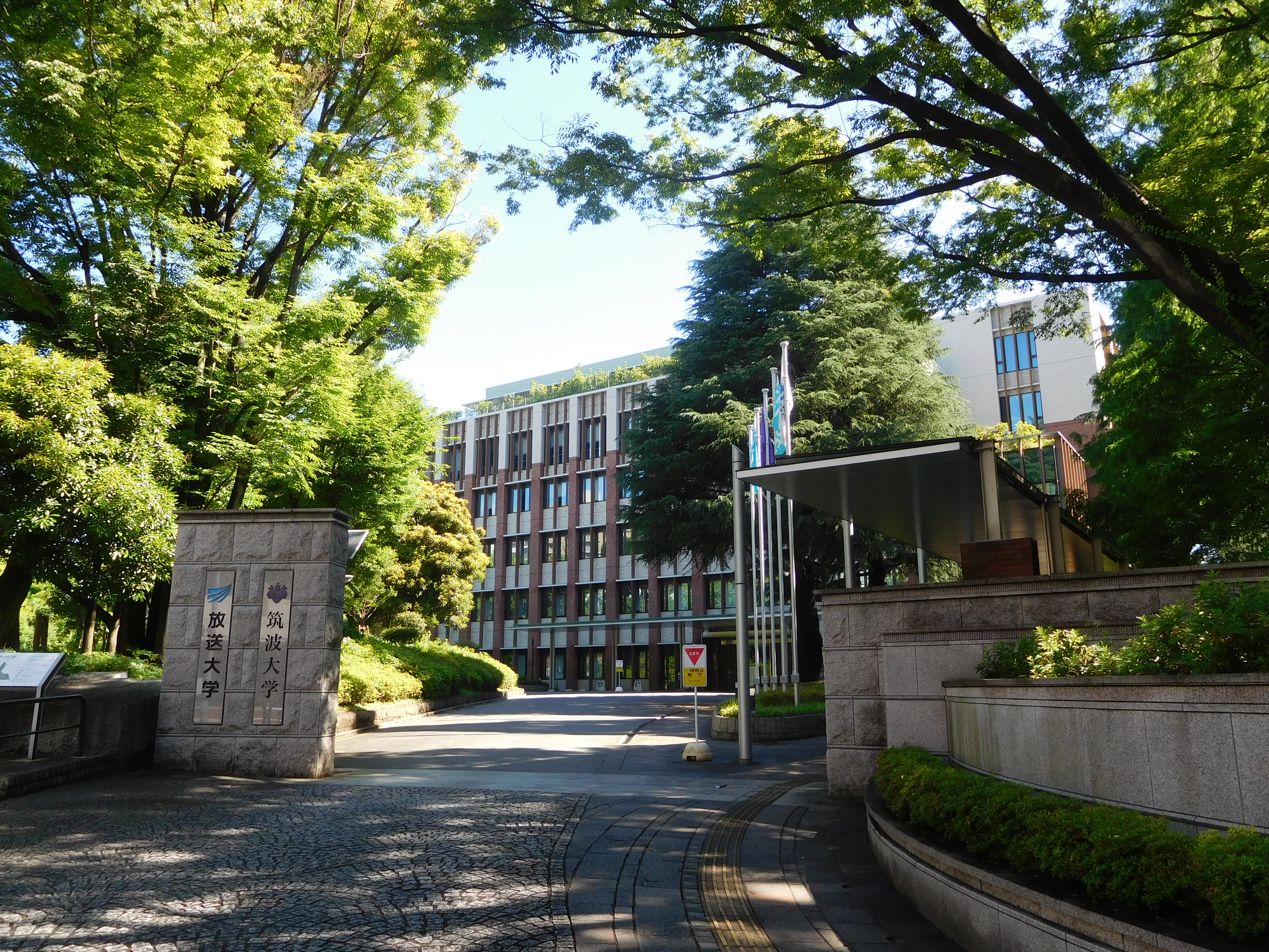 This is the Tokyo Bunkyo School Building, University of Tsukuba in Bunkyo, Tokyo. This building is also used for Tokyo-Bunkyo Learning Center, The Open University of Japan.